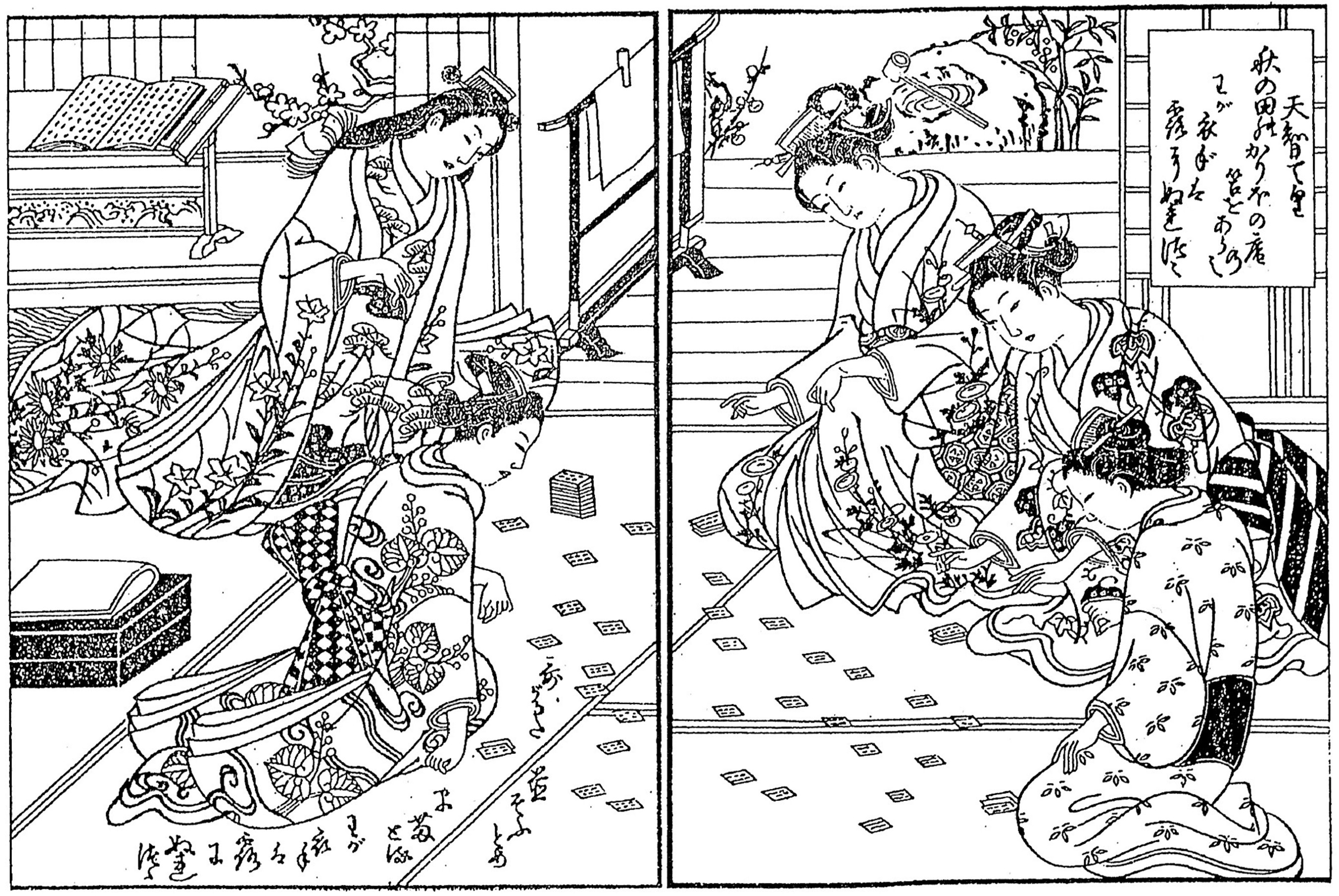 girls playing utagaruta